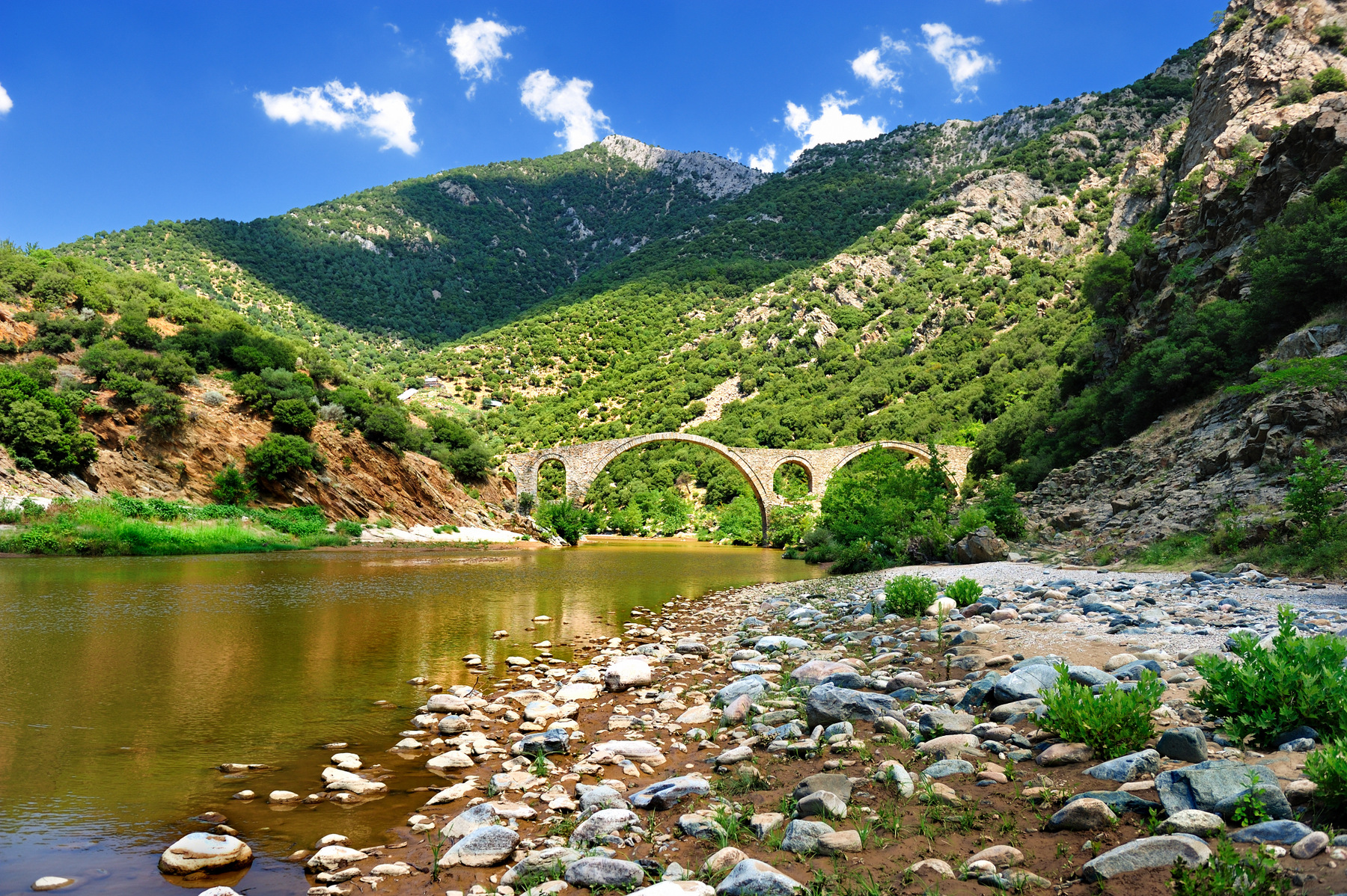 This is a photography of Natura 2000 protected area with ID GR1130007